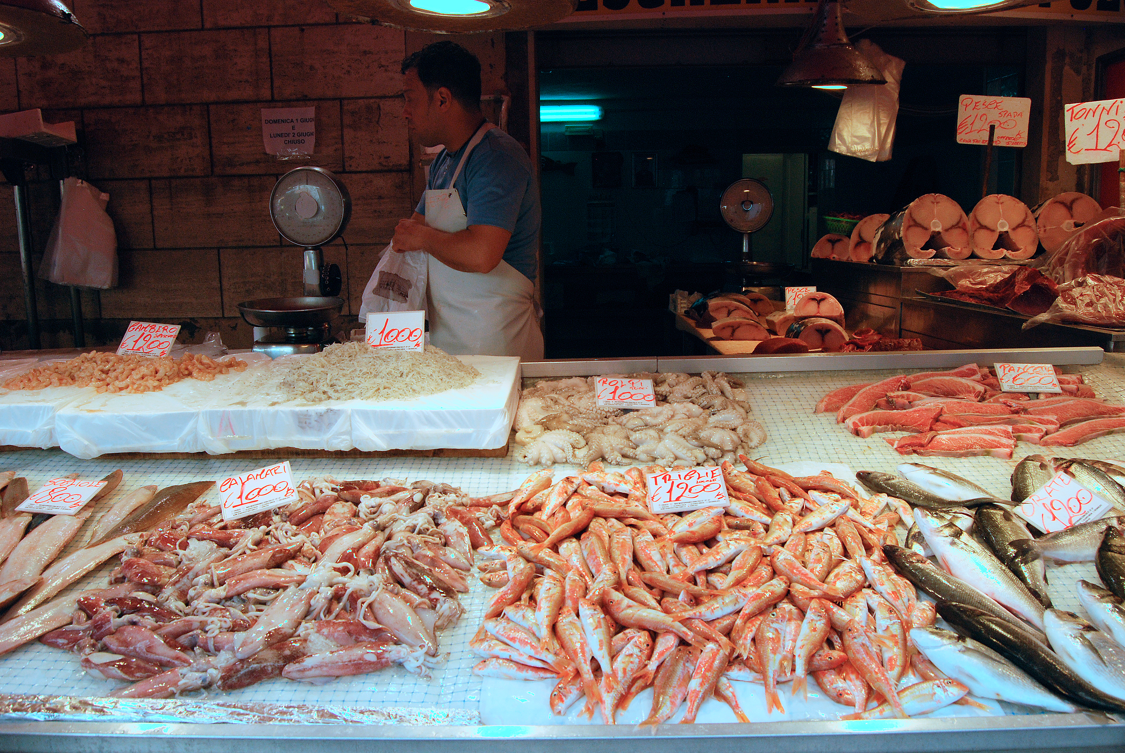 fish market, Syracuse